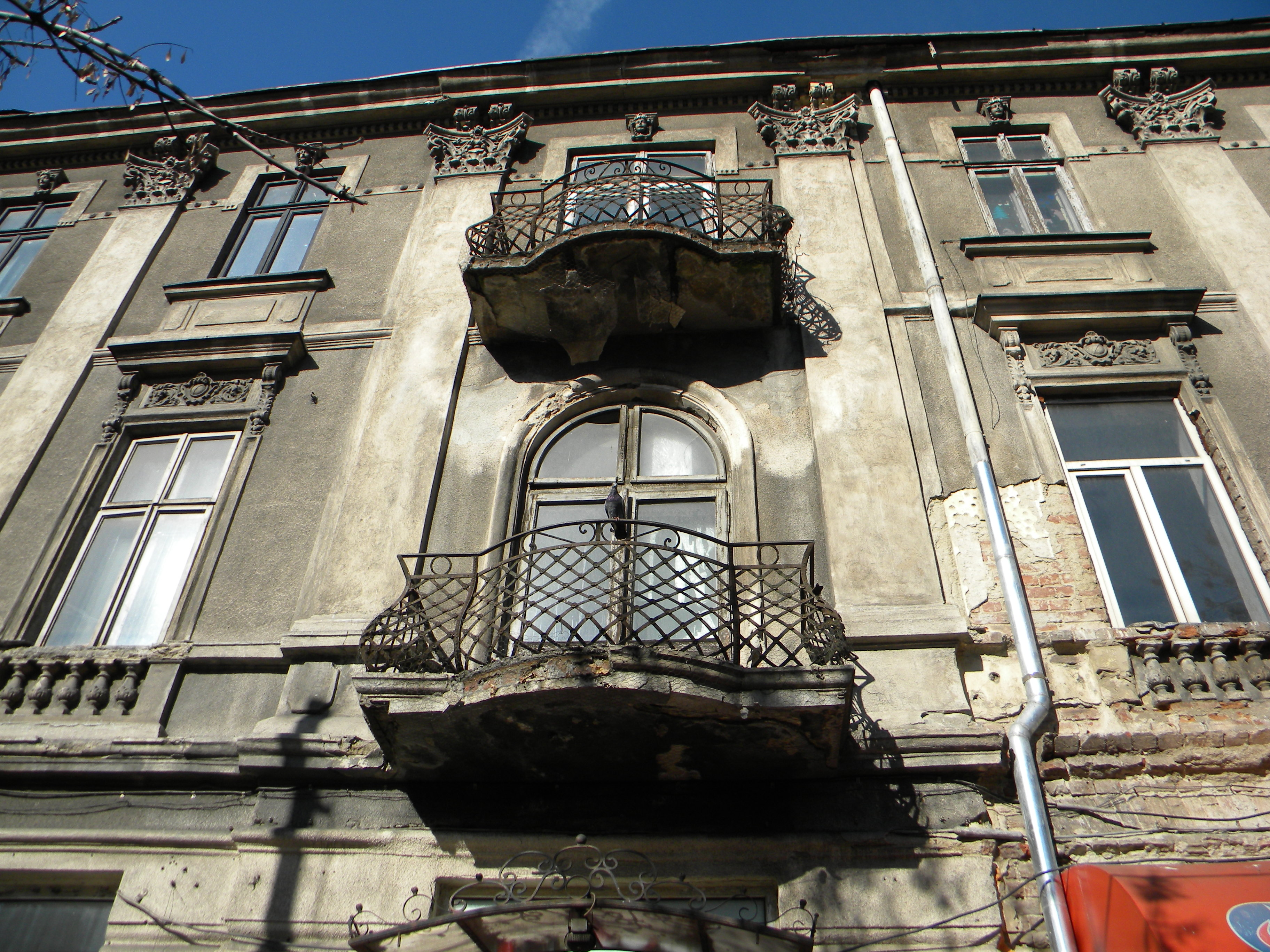 Bucuresti, Romania, Bd. Carol I, Imobil nr. 25, sect. 2, (B-II-m-B-18314) (3)